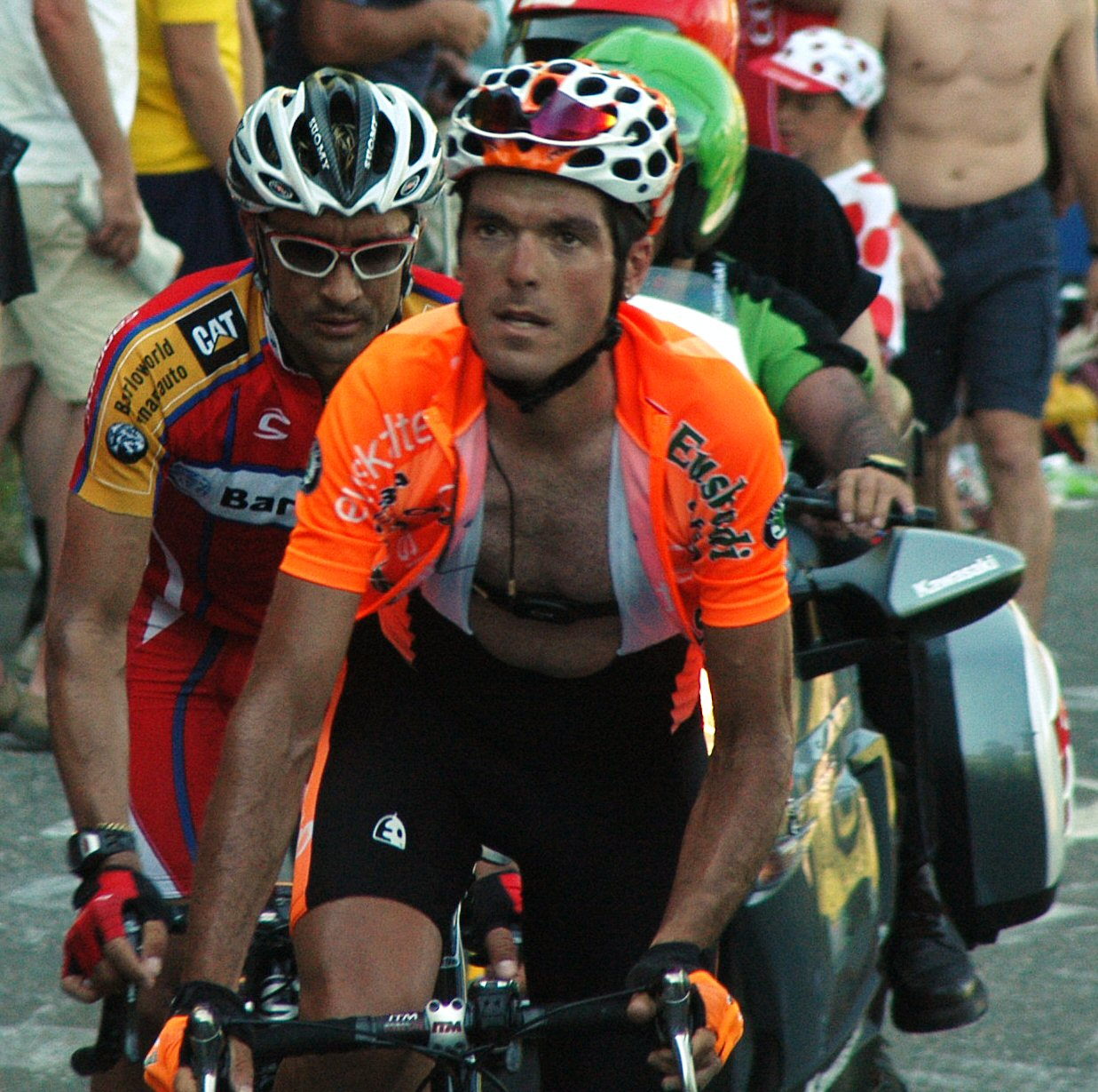 Gorka Verdugo at stage 7 of the Tour de France 2007 on the Col de la Colombière.